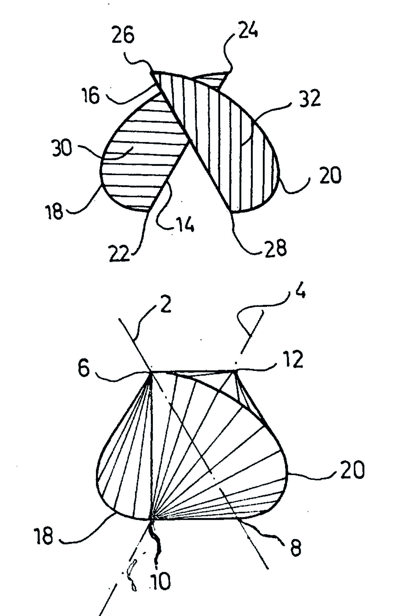 Drawings of a two half-discs device for generating a meaner motion and of a Sphericon, taken from the original patent filed by David Hirsch.